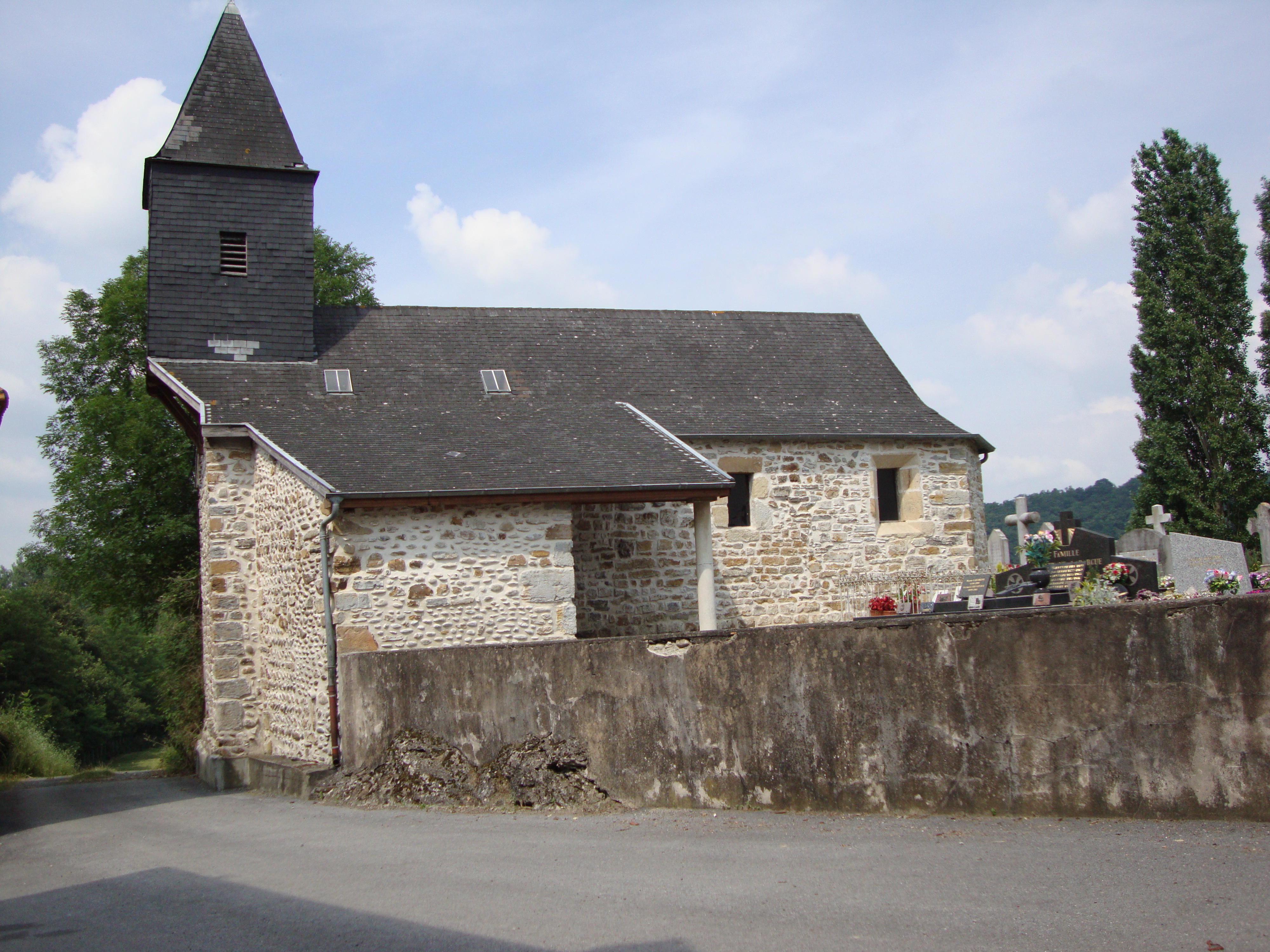 Lichos (Pyr-Atl, Fr) Saint-Grat church.